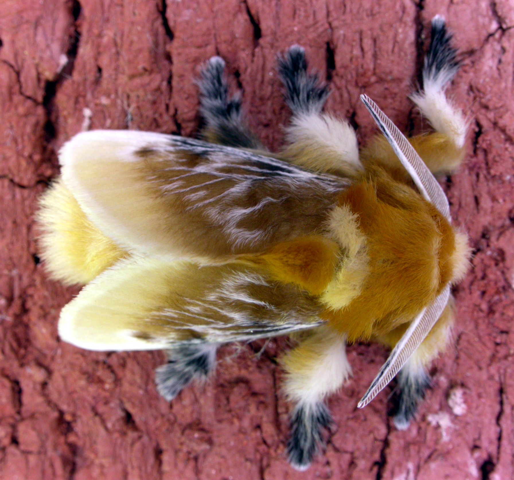 Southern flannel moth, Megalopyge opercularis, male. Location: Durham County, North Carolina, United States.